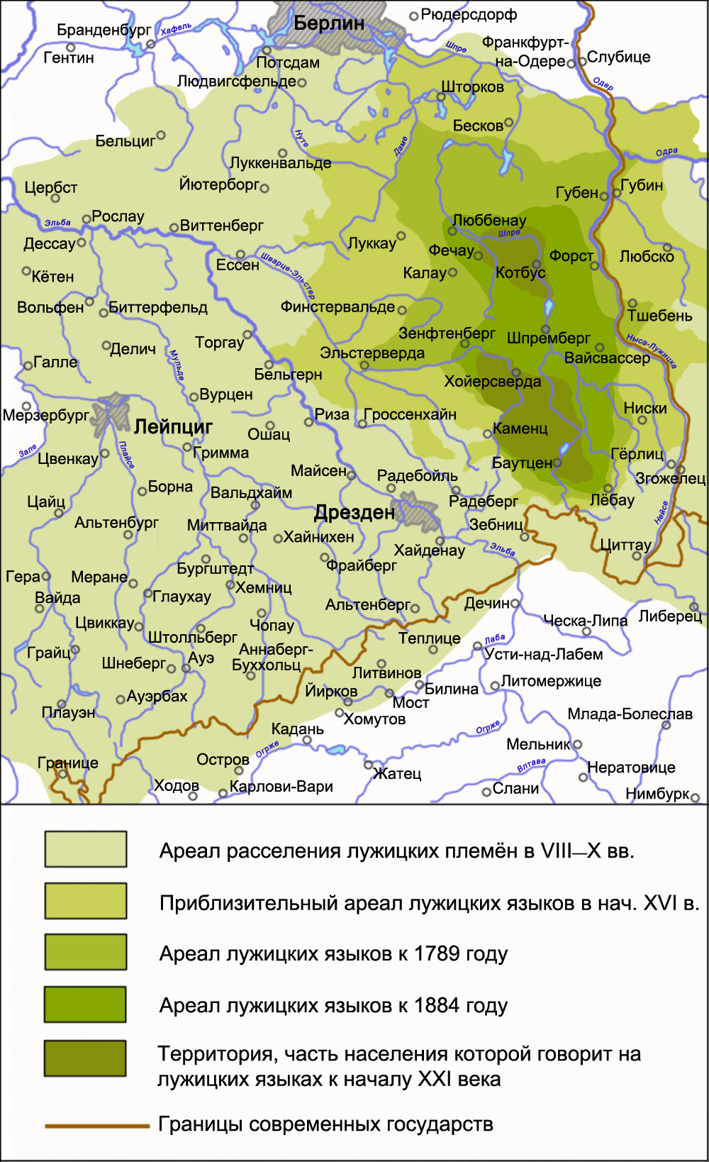 Map of sorbian-speaking area